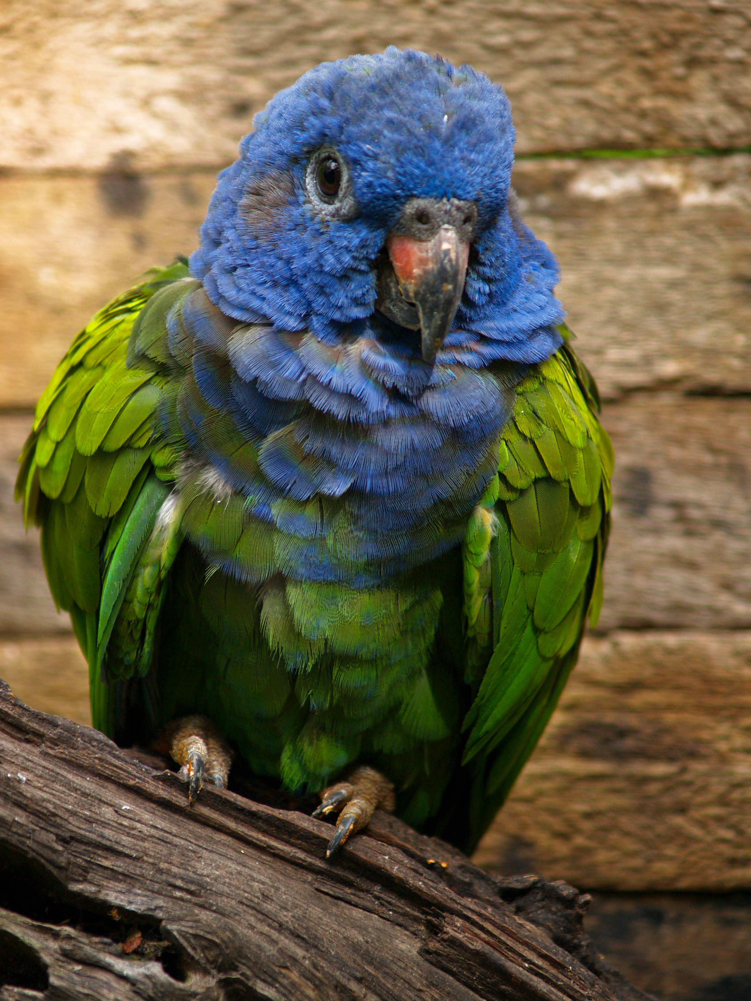 Blue-headed Parrot (also known as the Blue-headed Pionus) at La Senda Verde Animal Refuge, Yolosa, Bolivia.